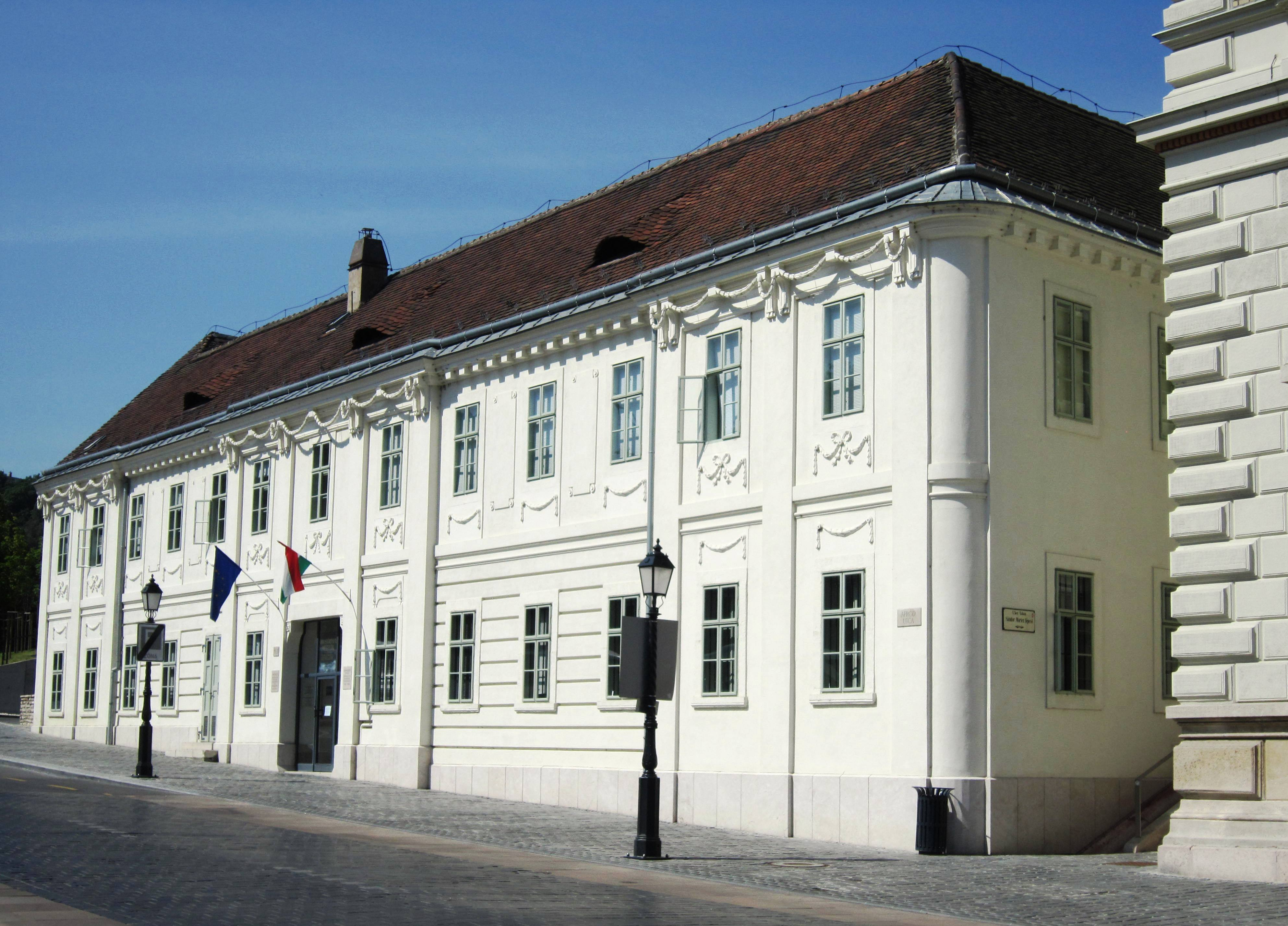 Late Baroque house, originally built around 1790, rebuilt after the 1810 Tabán fire. Listed building ID: 5. Partially destroyed in 1945 but rebuilt in 1962-64 for the Semmelweis Museum of Medical History. Birthplace of Ignác Semmelweis. - 1-3. Apród utca, District I., Budapest, Hungary.